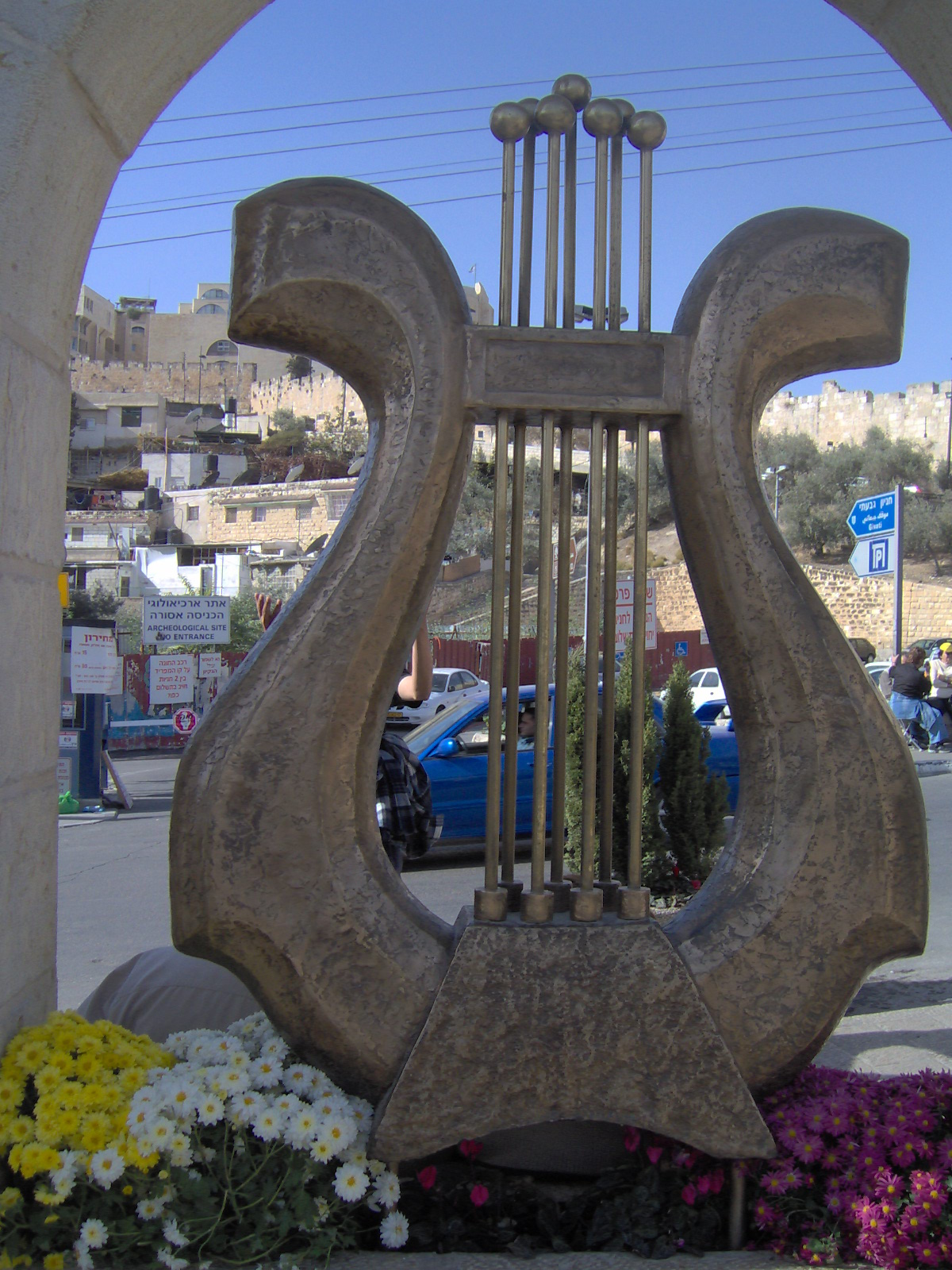 A harp of King David at the entrance to the City of David in Jerusalem